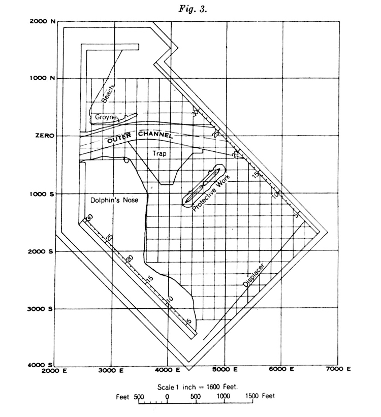 Scan detailing WC Ash's revetment design for Vizagapatam Harbour, from Journal of the Institution of Civil Engineers Vol. 1 Issue 3. Page 247